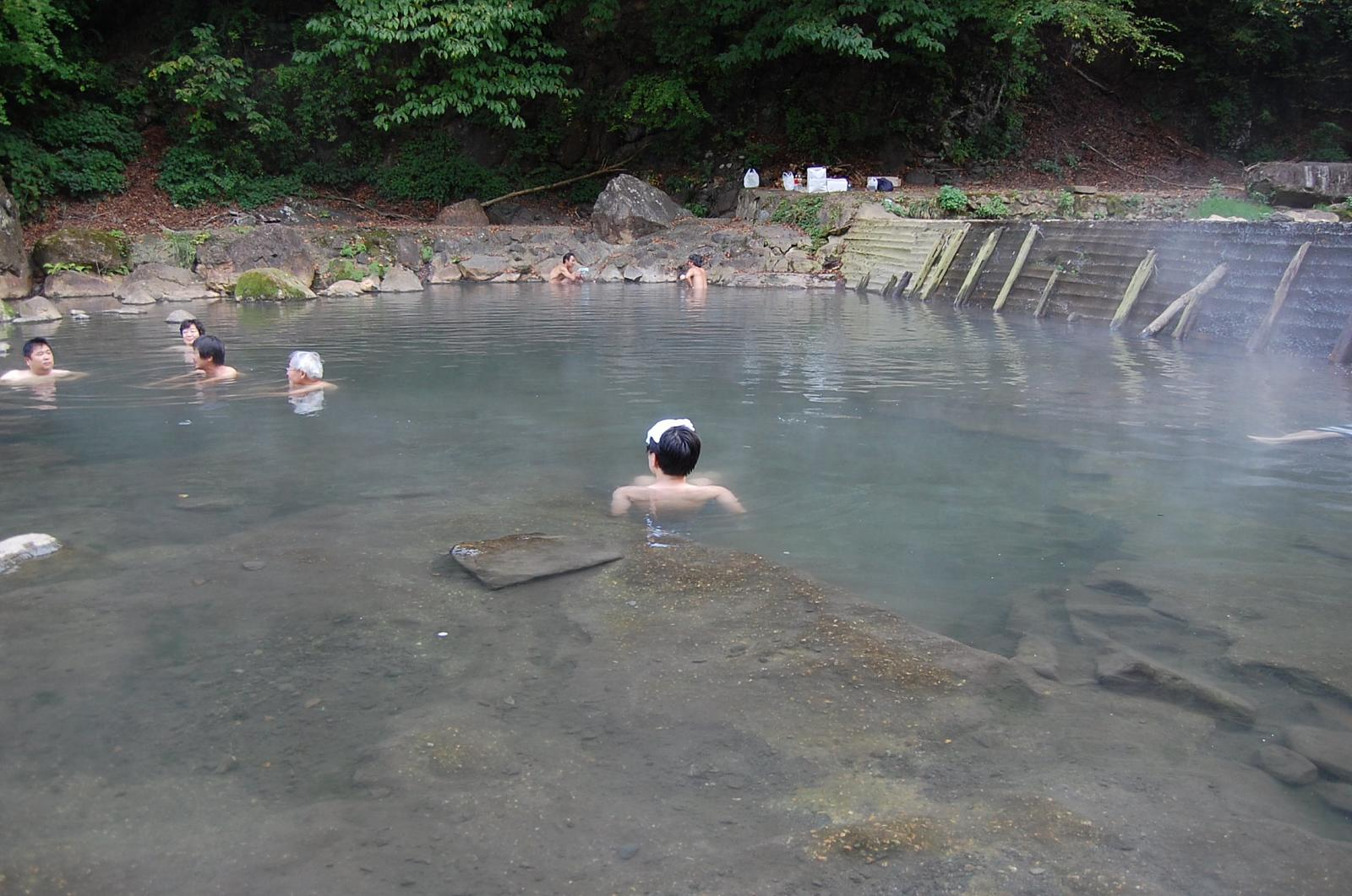 Shiriyaki Onsen in Gunma, Japan.